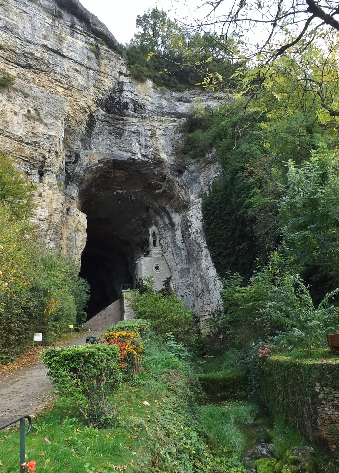 Sight of the grottes de la Balme entrance, in La Balme-les-Grottes in Isère, France.